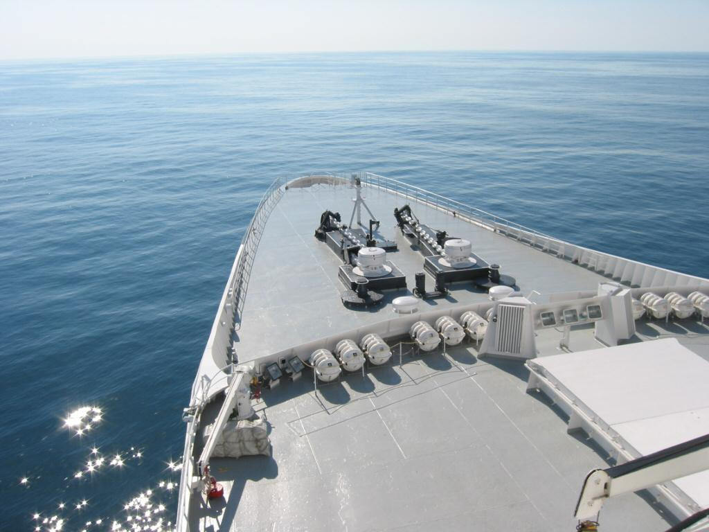 RMS Queen Elizabeth 2 Phot by Paddy Briggs